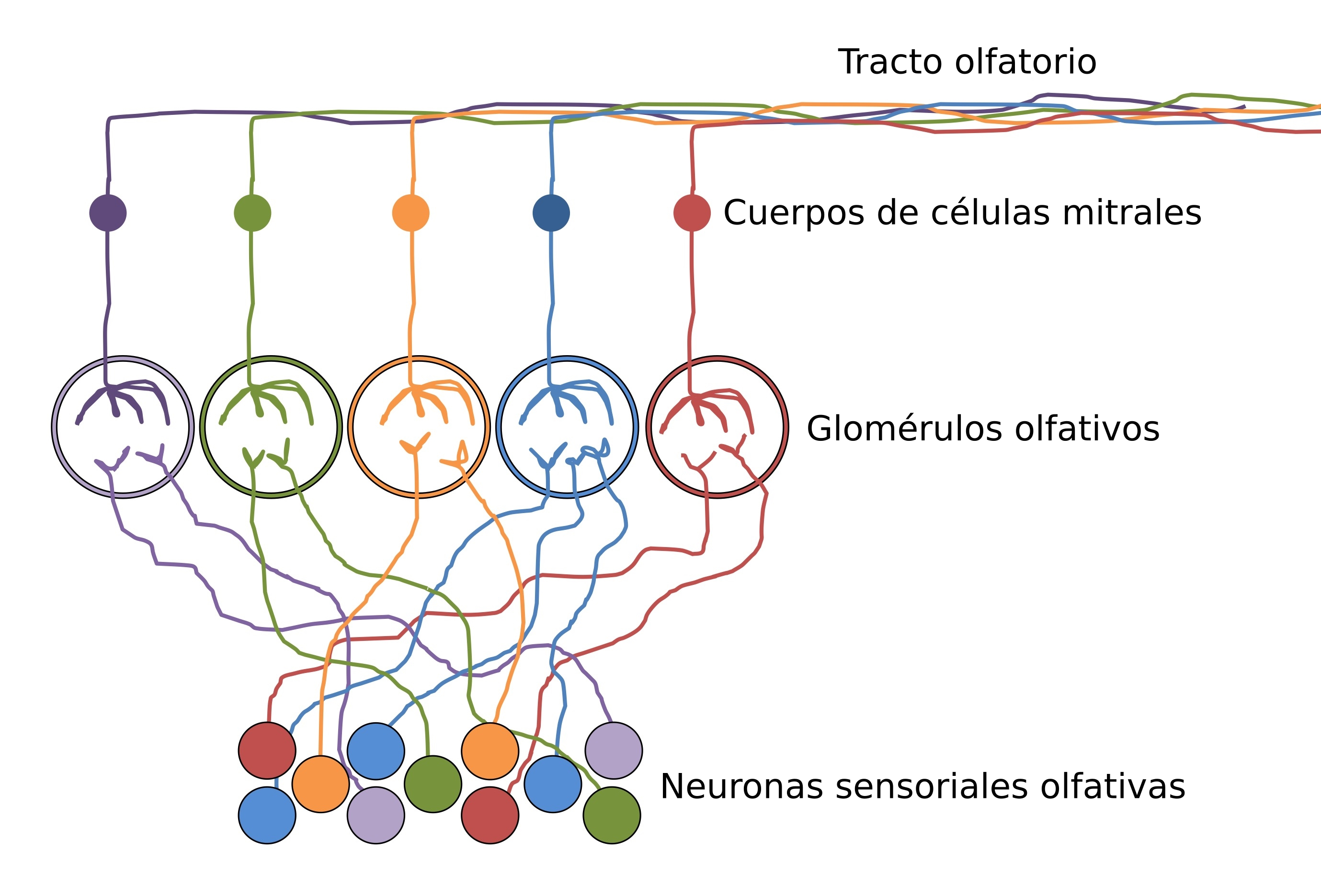 Olfactory sensory neurons (OSNs) express odorant receptors. The axons of OSNs expressing the same odorant receptors converge onto the same glomerulus at the olfactory bulb, allowing for the organization of olfactory information.